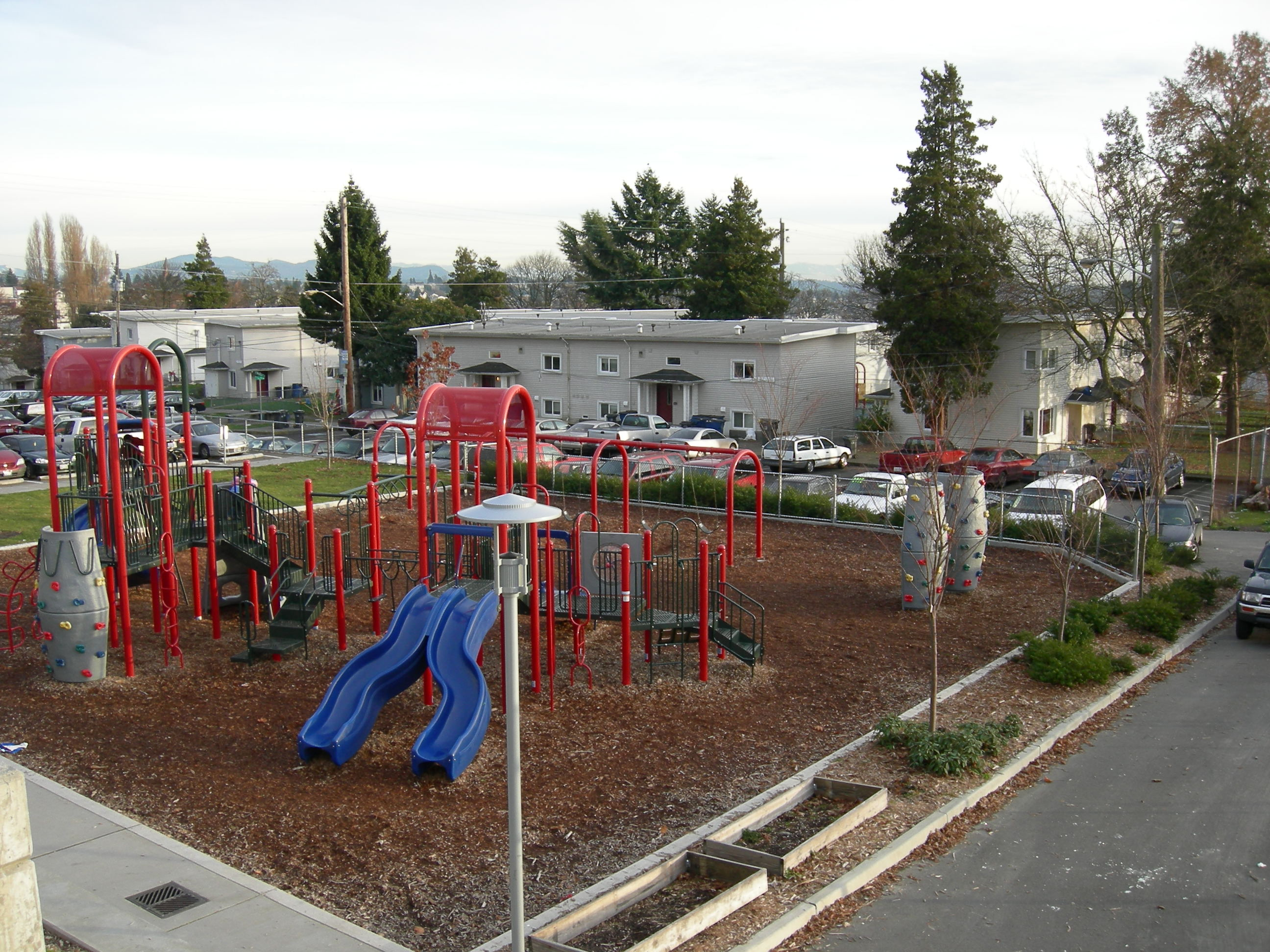 Playground in foreground, row houses in background; Yesler Terrace housing project, Seattle, Washington.